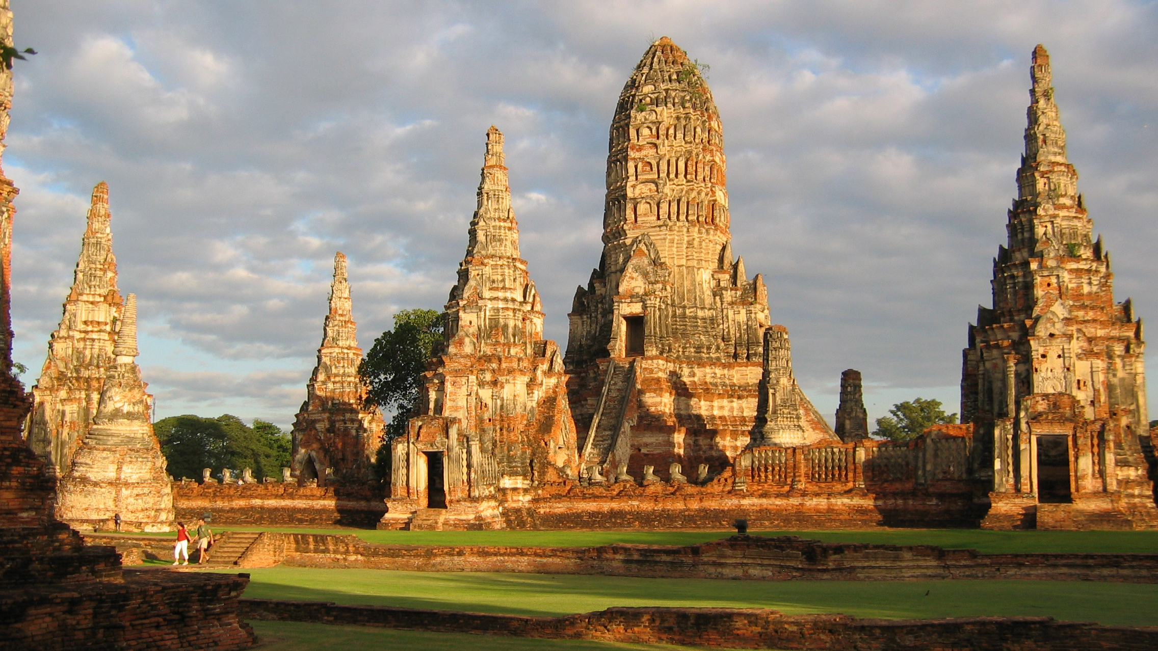 Wat Chaiwatthanaram in late afternoon